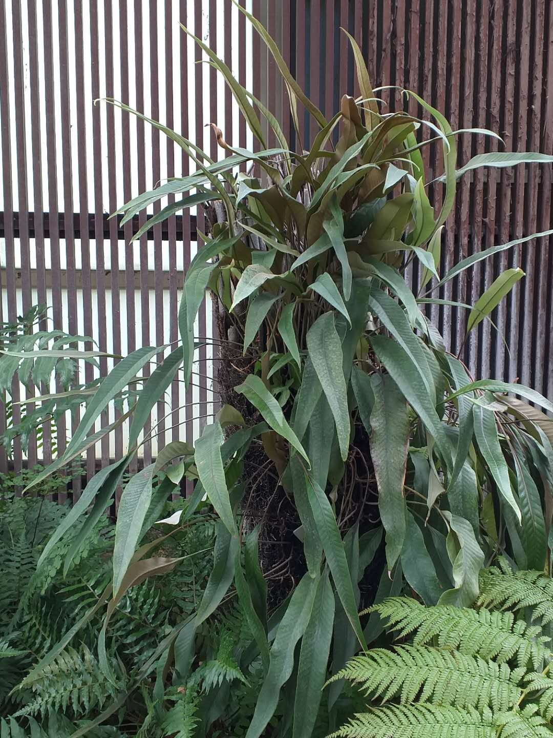 Pyrrosia lingua. Botanical Garden of National Museum of Natural Science, Taichung, Taiwan.